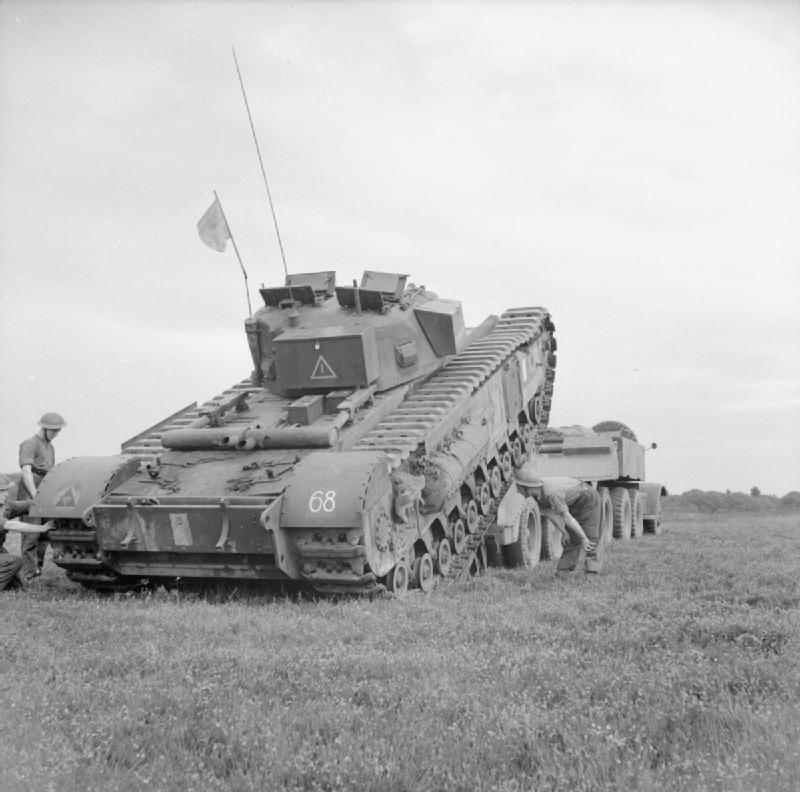 The British Army in the United Kingdom 1939-45 Churchill tank of 144th Regiment, Royal Armoured Corps (33rd Army Tank Brigade, 3rd (Mixed) Division), being hauled onto a tank transporter at Burleigh in Hampshire, August 1942.